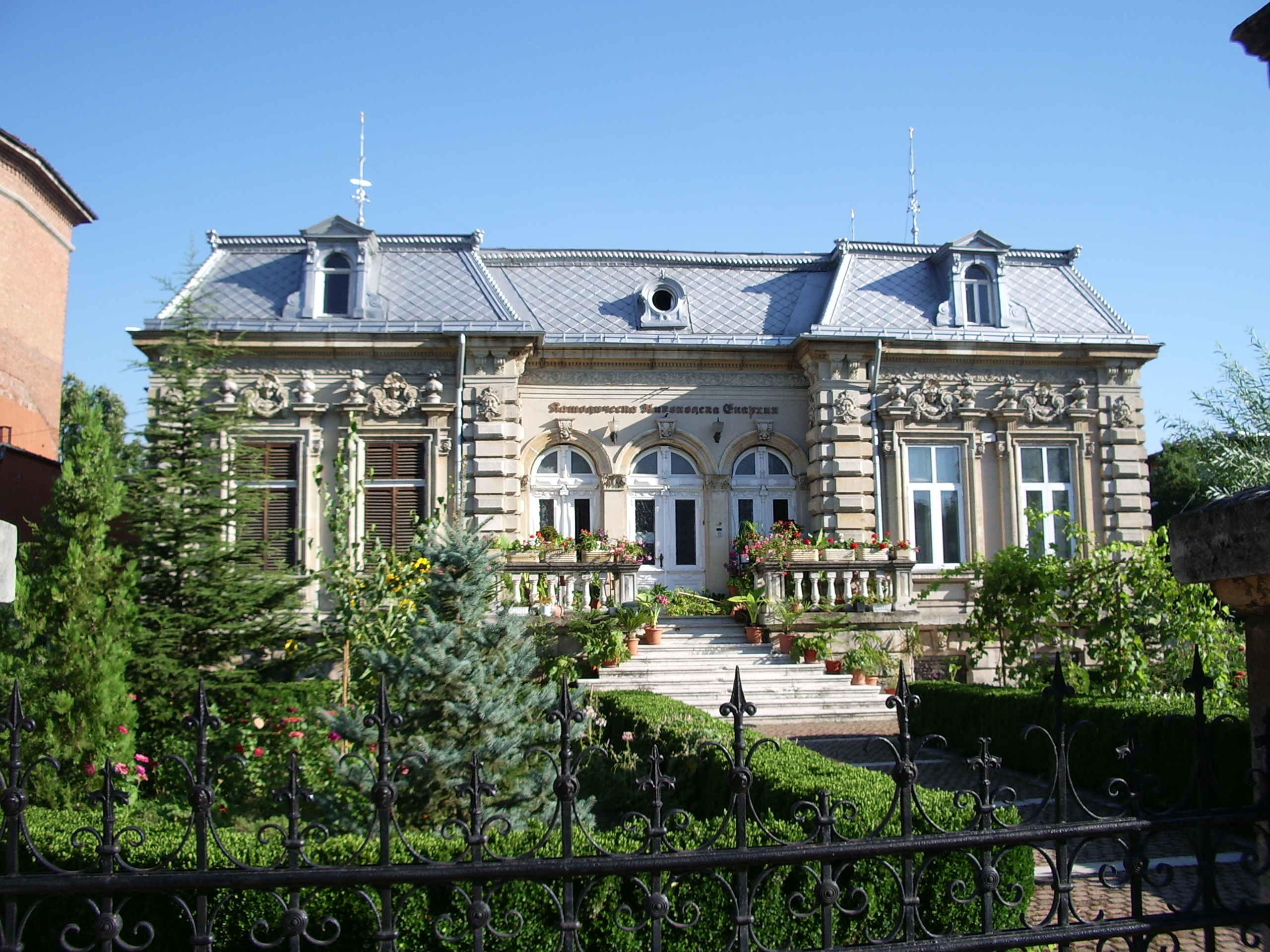 The building of the Catholic Eparchy in Rousse, Bulgaria